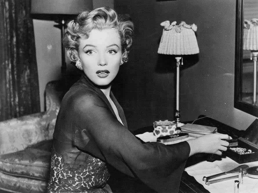 Monroe in Don't Bother to Knock (1952) from the July 1953 issue of Modern Screen. Note this is a larger, better quality copy of the photo seen on Modern Screen page 33. A renewal search was done at using the title Modern Screen. There were no listings for the publication; there's no evidence of continued copyright on the magazine.